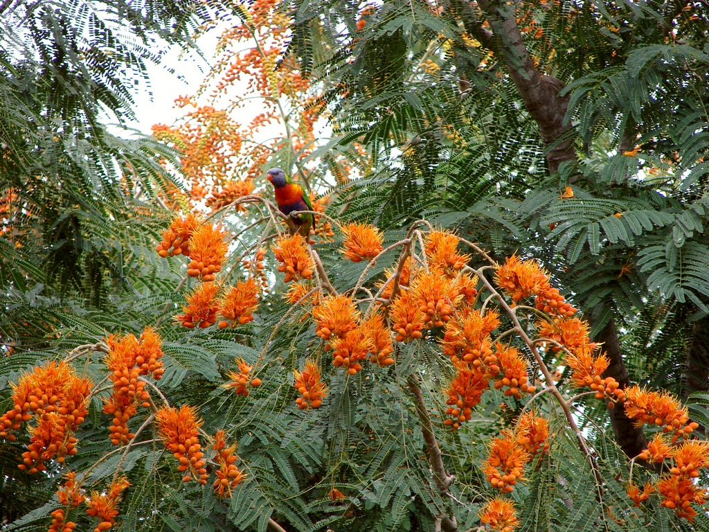 A Rainbow Lorikeet Trichoglossus moluccanus on flowering Colvillea racemosa, Mount Coot-tha Botanic Garden, Brisbane, Australia.